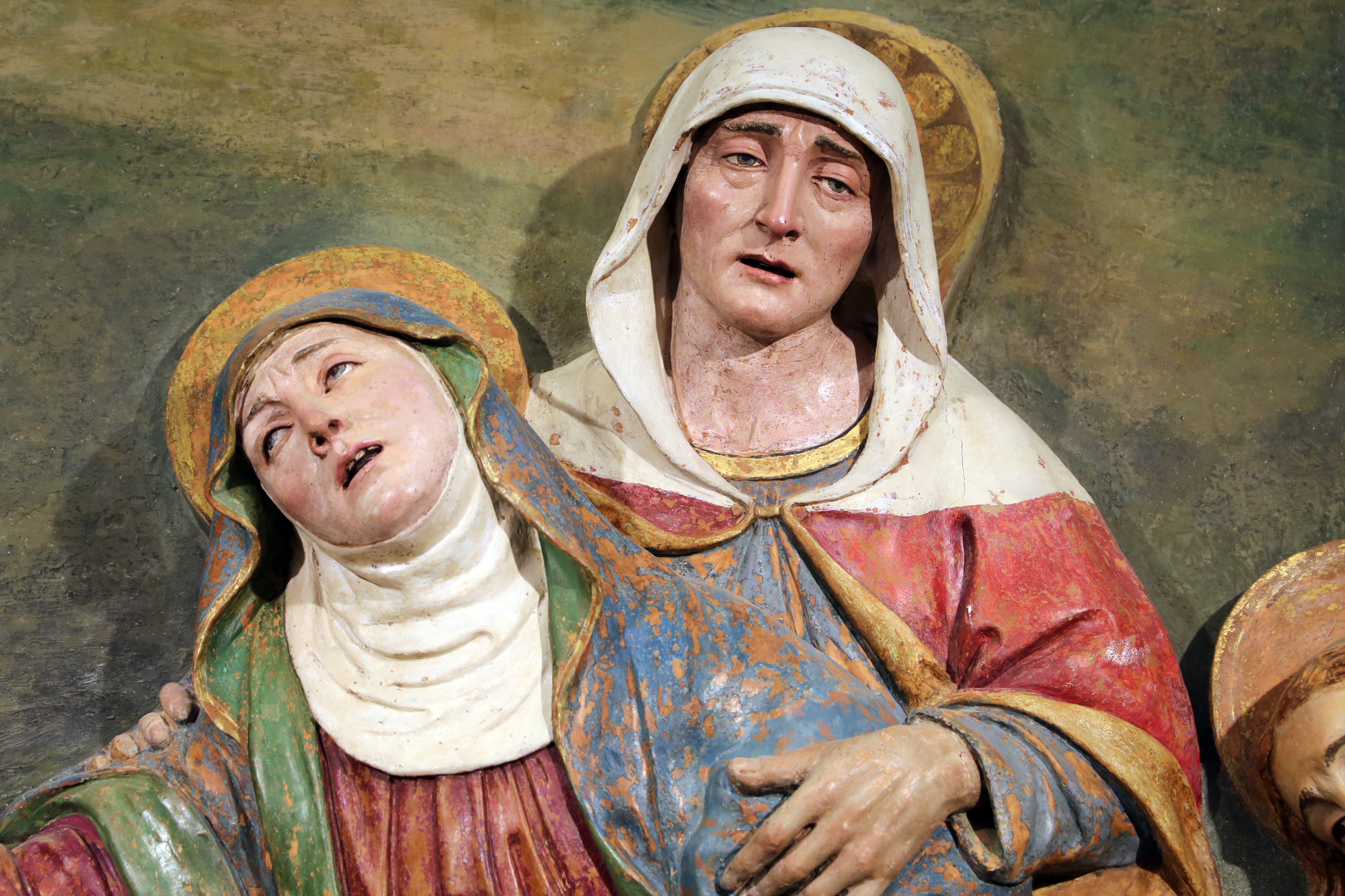 Museo San Francesco (Greve in Chianti)